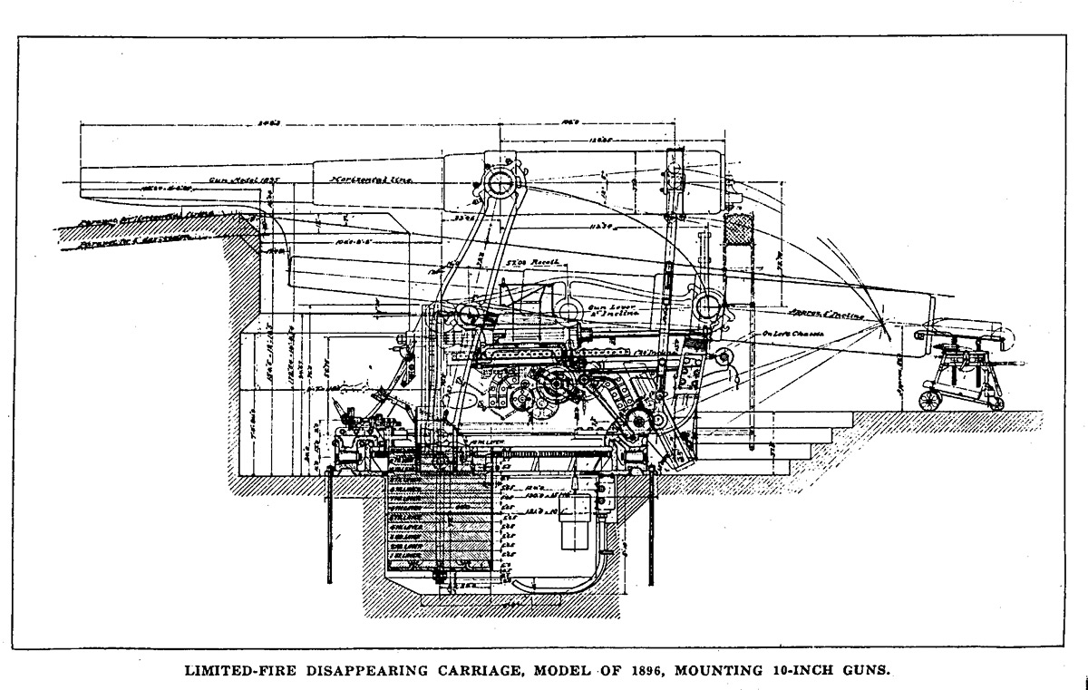 This is cutaway drawing of a 10-inch Coast Artillery gun on an M1896 disappearing carriage. The drawing is cluttered, but one can make out the position of the gun when raised into firing position ("in battery") vs. when retracted behind the parapet and ready to be swabbed out and reloaded. The curved line running between the breeches in the two renderings of the gun in the two positions (raised and depressed) shows the path traveled by the tube during its firing cycle. The drawing also shows the pit into which counterweight falls as the gun is brought up into firing position. This counterweight was made up of a stack of lead plates, which are also clearly visible here. The number of plates varied depending on the type of gun and the projectile/powder loads in use. On the loading platform at right is a three-wheeled shell cart (one wheel in the rear). When the breech of the gun is retracted into loading position, this cart can be wheeled right up to the breech and the shell and powder load rammed into gun. The powder generally traveled on the lower level of the shell cart.